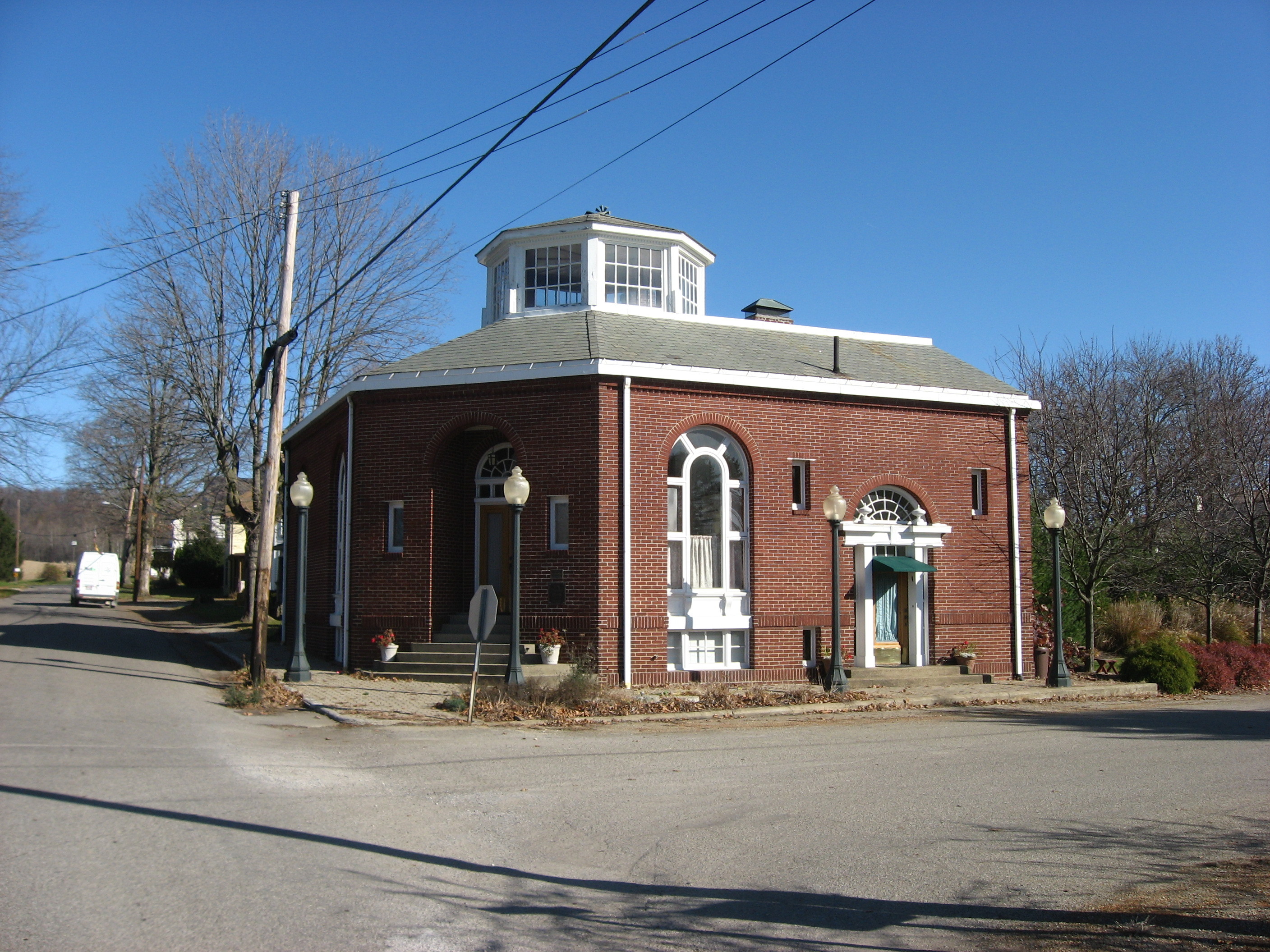 Front of the Glenford Bank, located at the intersection of Main and Broad Streets in Glenford, Ohio, United States. Built in 1919, it is listed on the National Register of Historic Places.